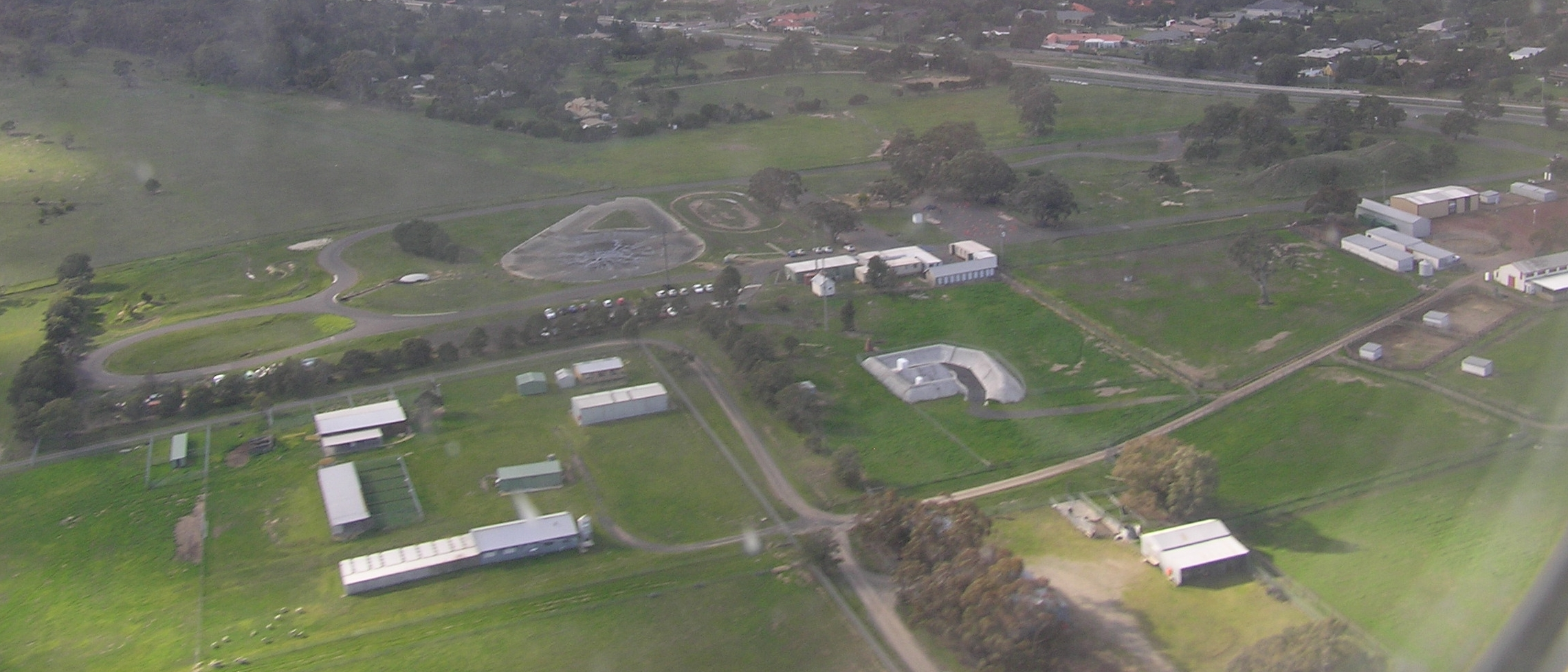 only just aerial photo of the Victoria Police centre at Attwood. Police Dogs are in the foreground. Driving range in the background.